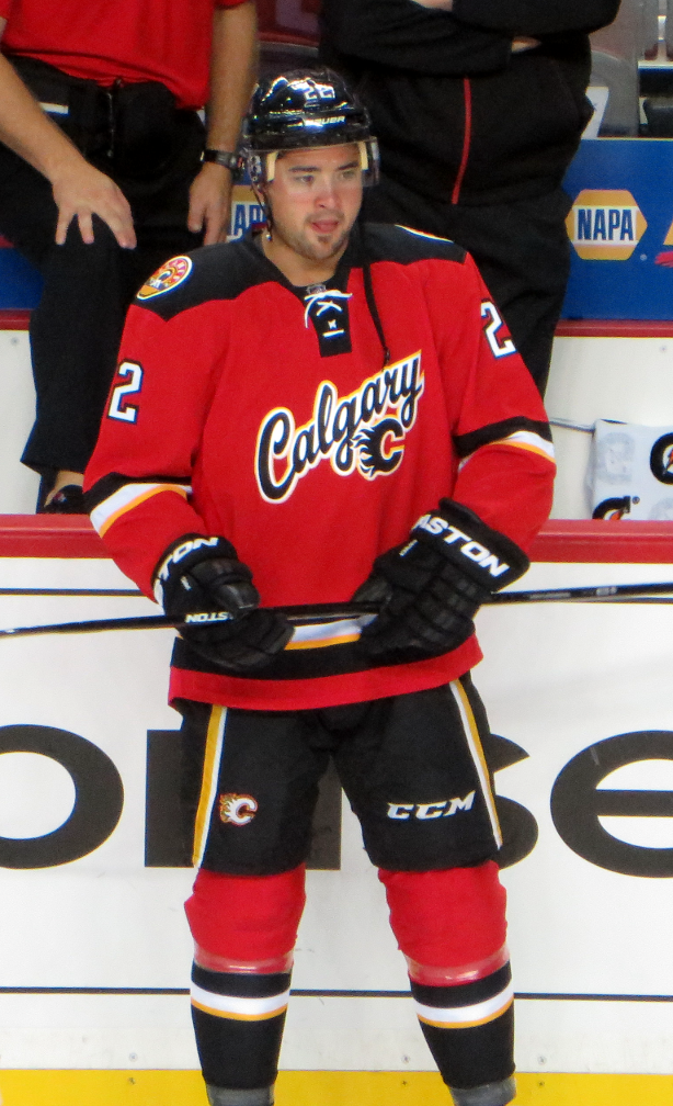 Calgary Flames forward Devin Setoguchi prior to a National Hockey League game against the Nashville Predators.